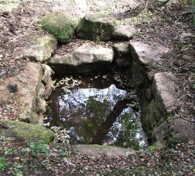 Madron Well. Often overlooked by visitors to the nearby chapel, this ancient well was once the chief water supply for Penzance.